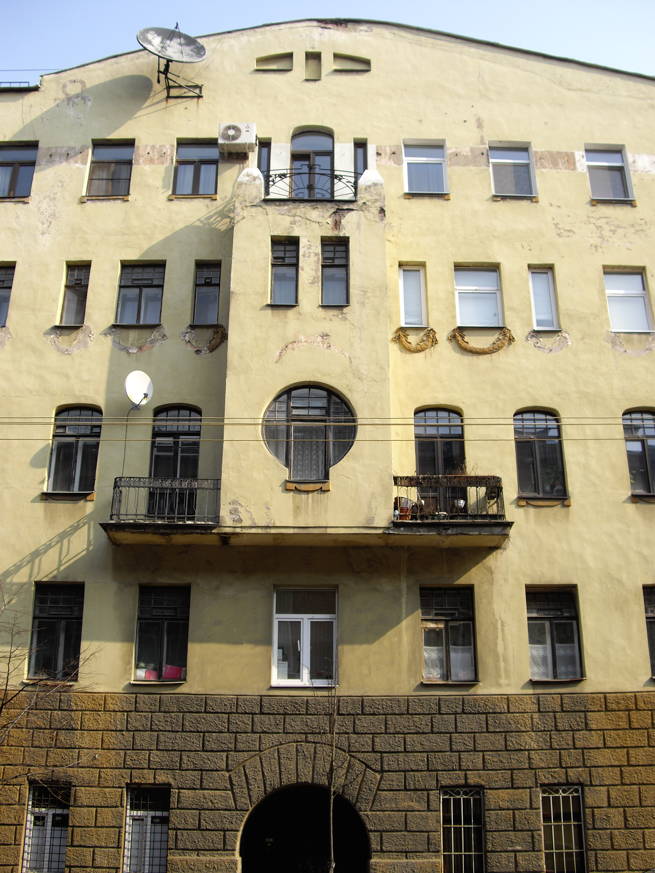 27-29, Gatchinskaya street (Saint-Petersburg, Russia), the central-left part of the facade. Architect Hyppolit Pretreaus, 1906.